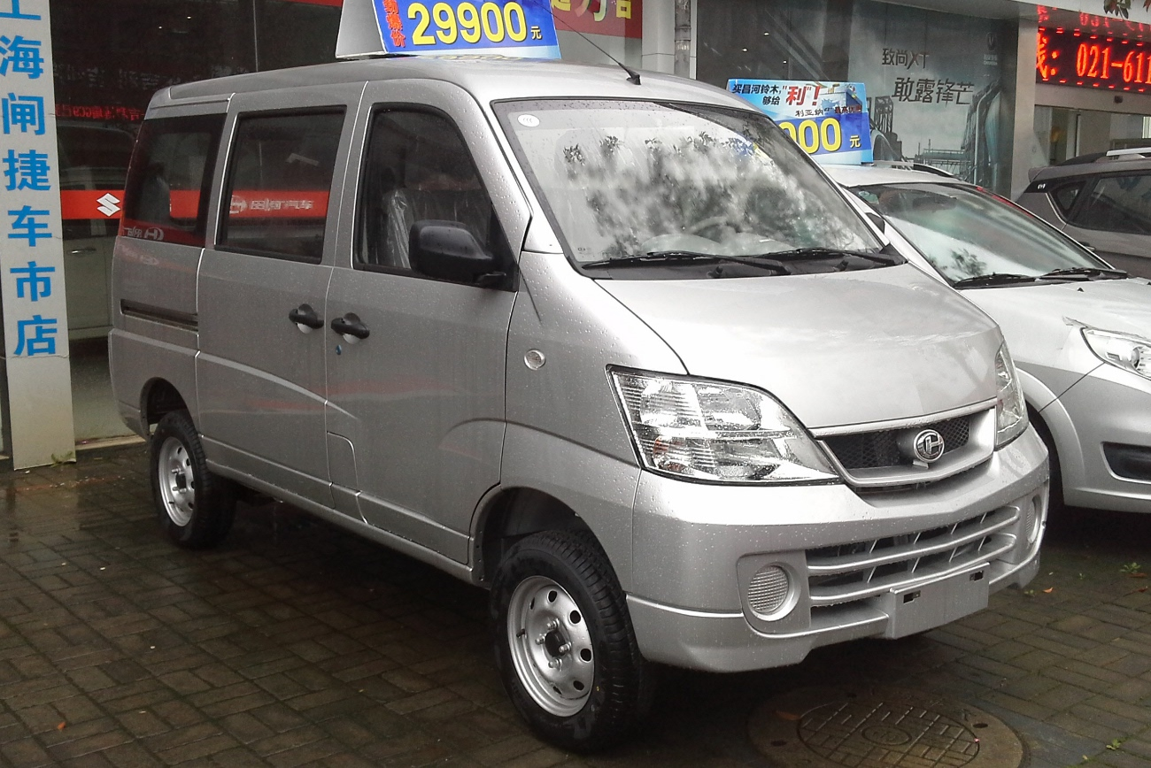 Changhe Freedom photographed in Shanghai, China.